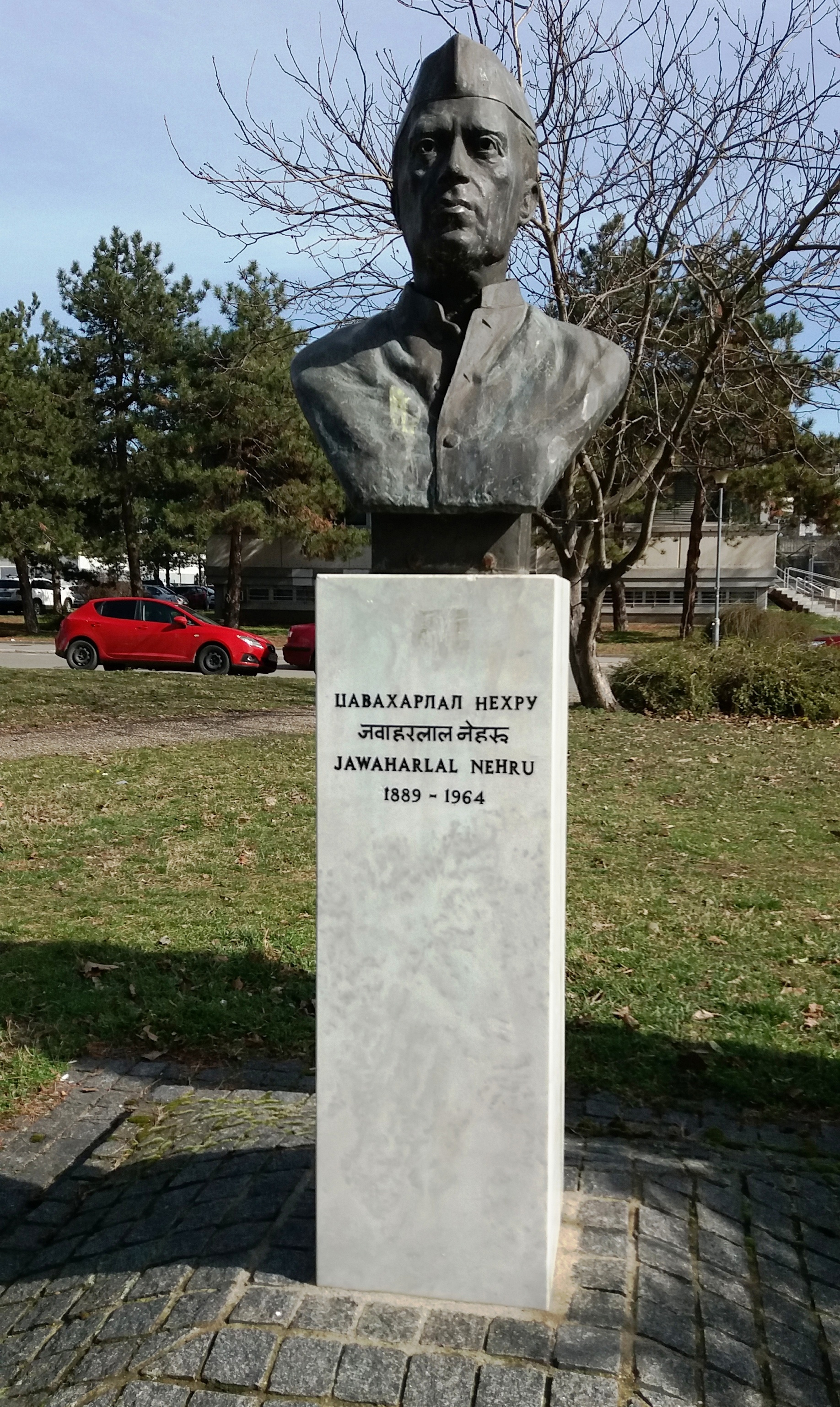 Bust of Jawaharlal Nehru in New Belgrade